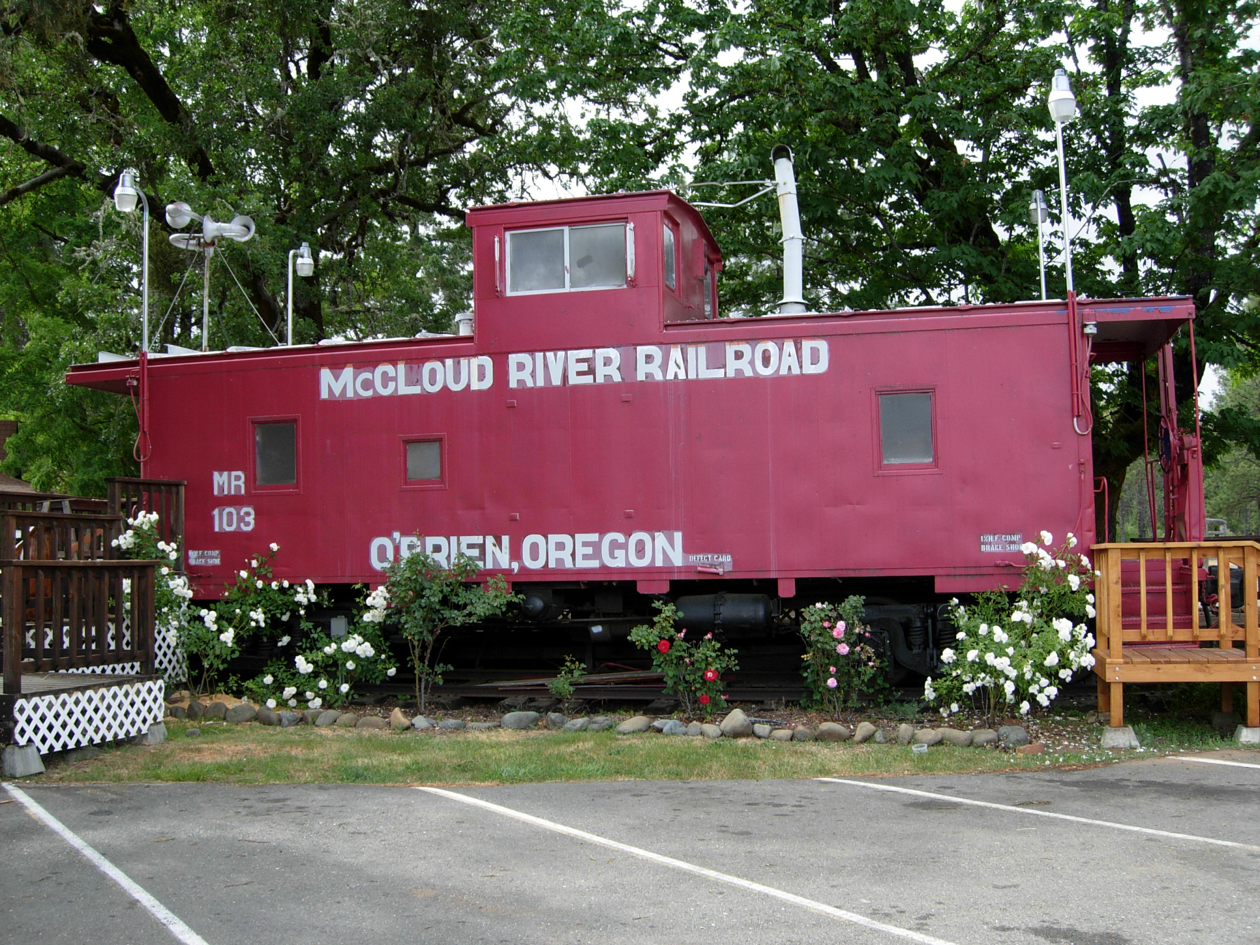 Though its not authentic McCloud rr. Rolling stock, this caboose in O'Brien, Oregon was repainted many years ago as such as the owner was a huge fan of the line.